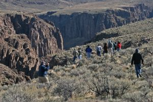 Big Jacks Creek Wilderness in Idaho.